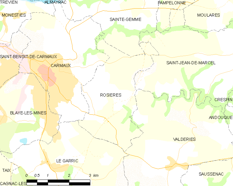 Map of French municipality Rosières